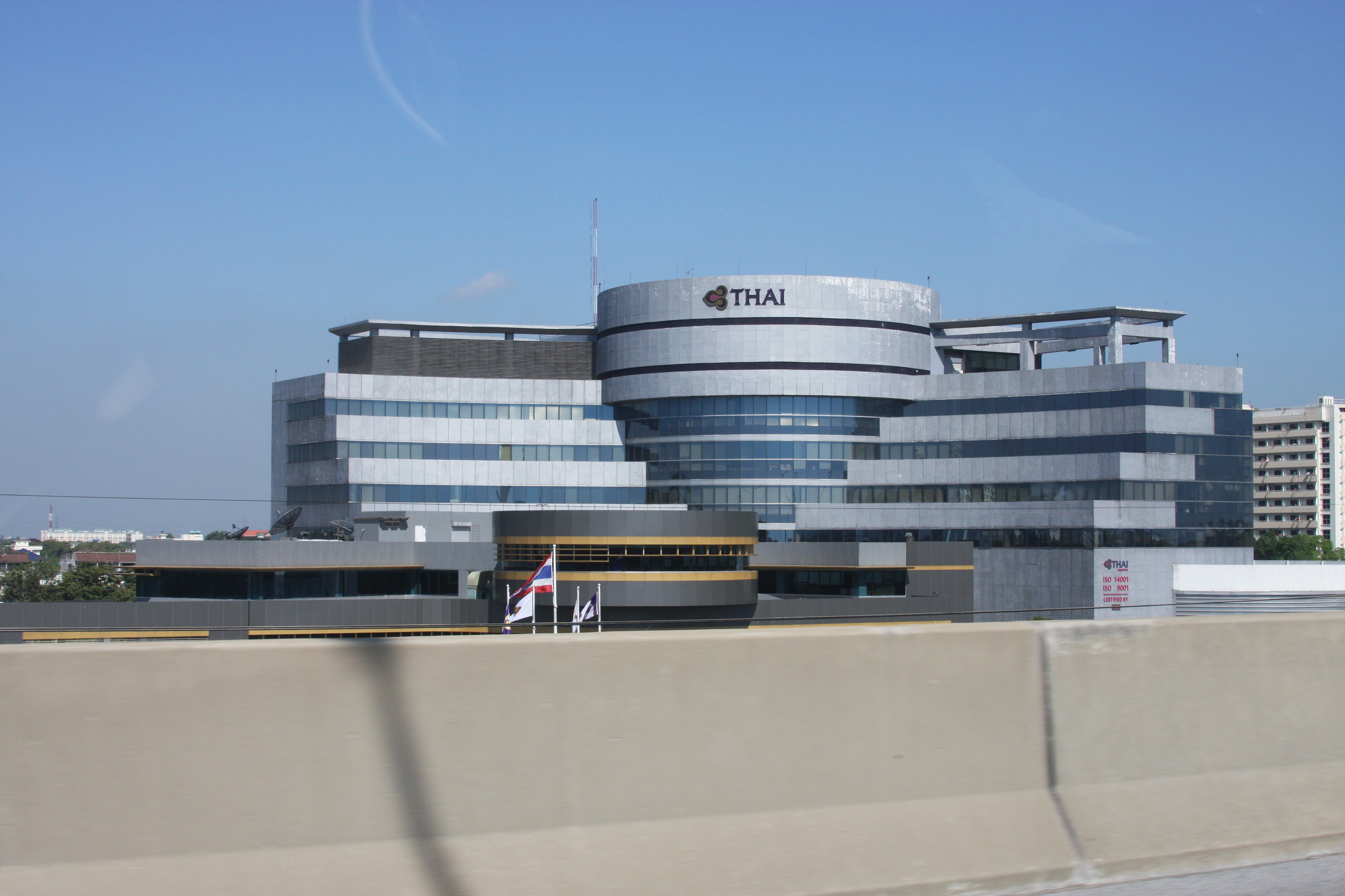 Thai Airways quarters in Don Muang, northern Bangkok